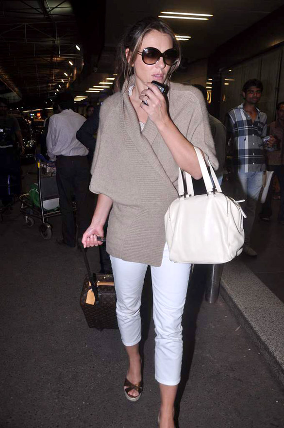 Liz Hurley snapped at the airport